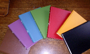 photograph of bound periodicals, taken at the Pratt Institute Library, Brooklyn NY